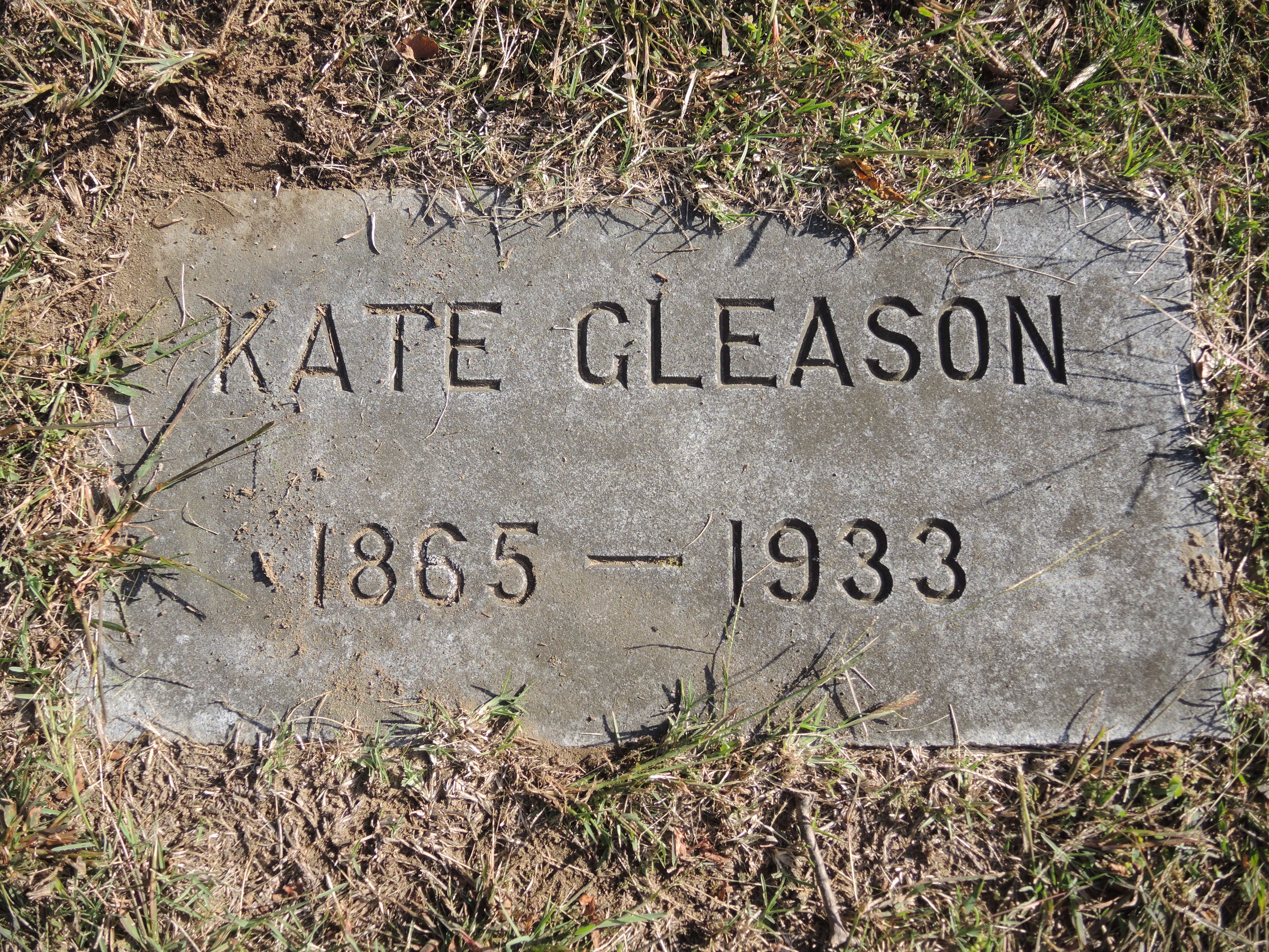 Gravestone of Kate Gleason in Riverside Cemetery (Rochester, New York)